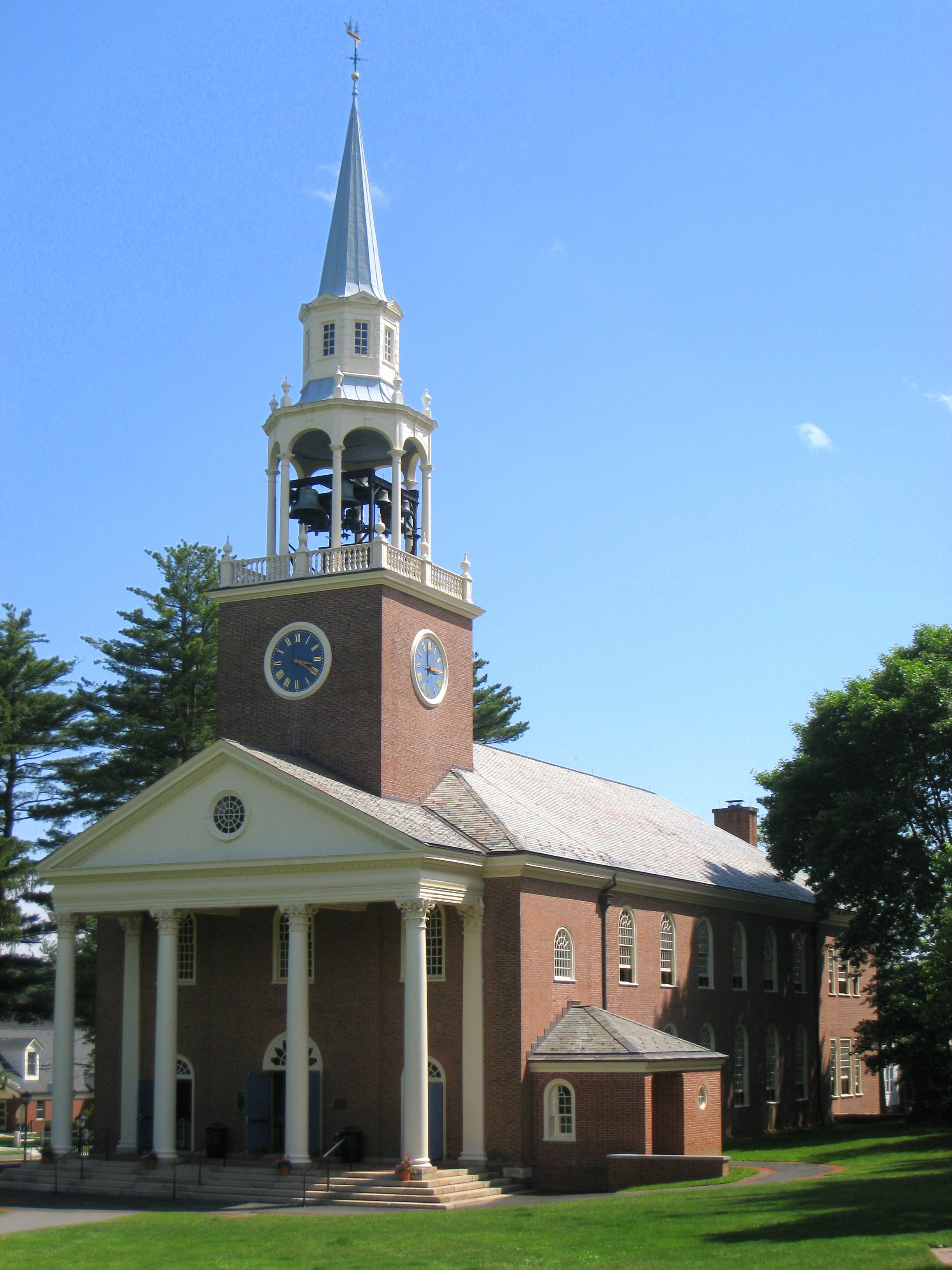 Seymour St. John Chapel - Choate Rosemary Hall, Wallingford, Connecticut, USA. Architect Ralph Adams Cram, 1924.